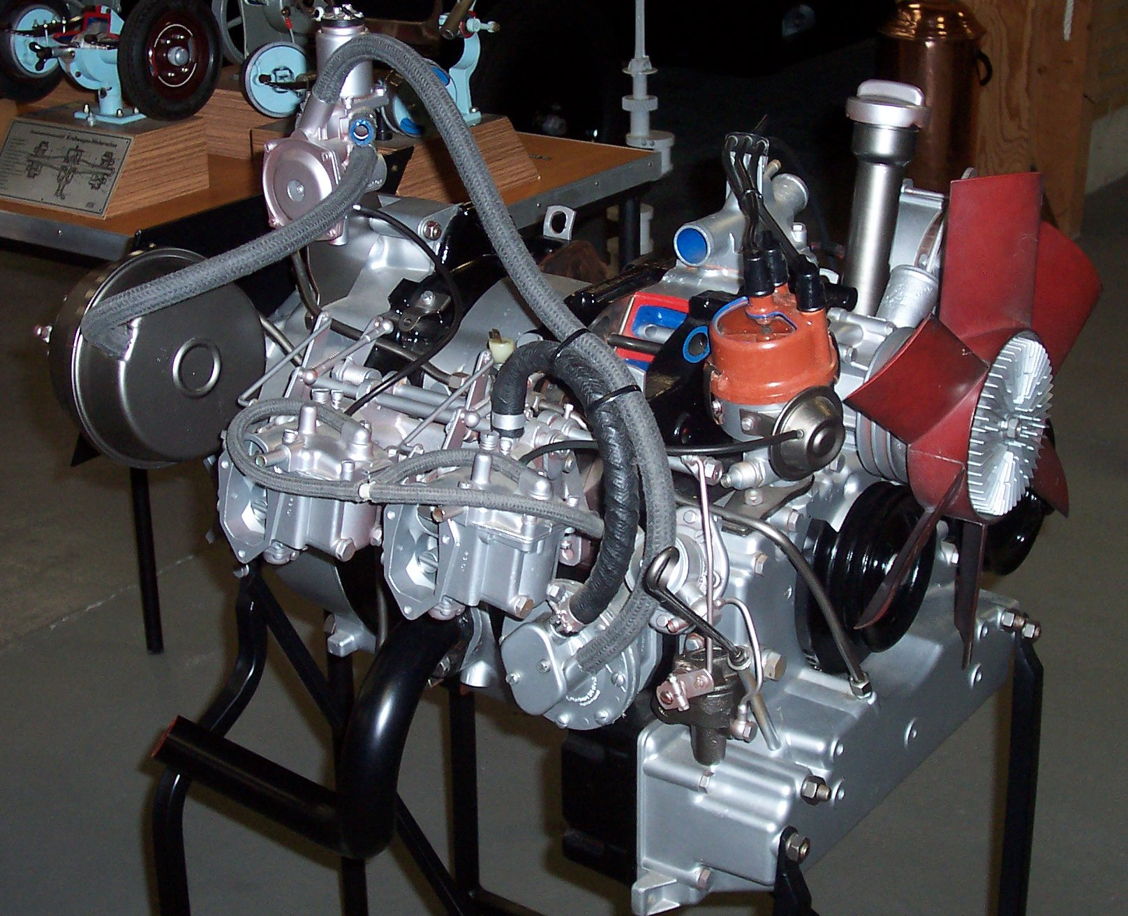 NSU Ro80 twin rotor wankel engine. Location: Jysk Automobilmuseum, Gjern, Denmark